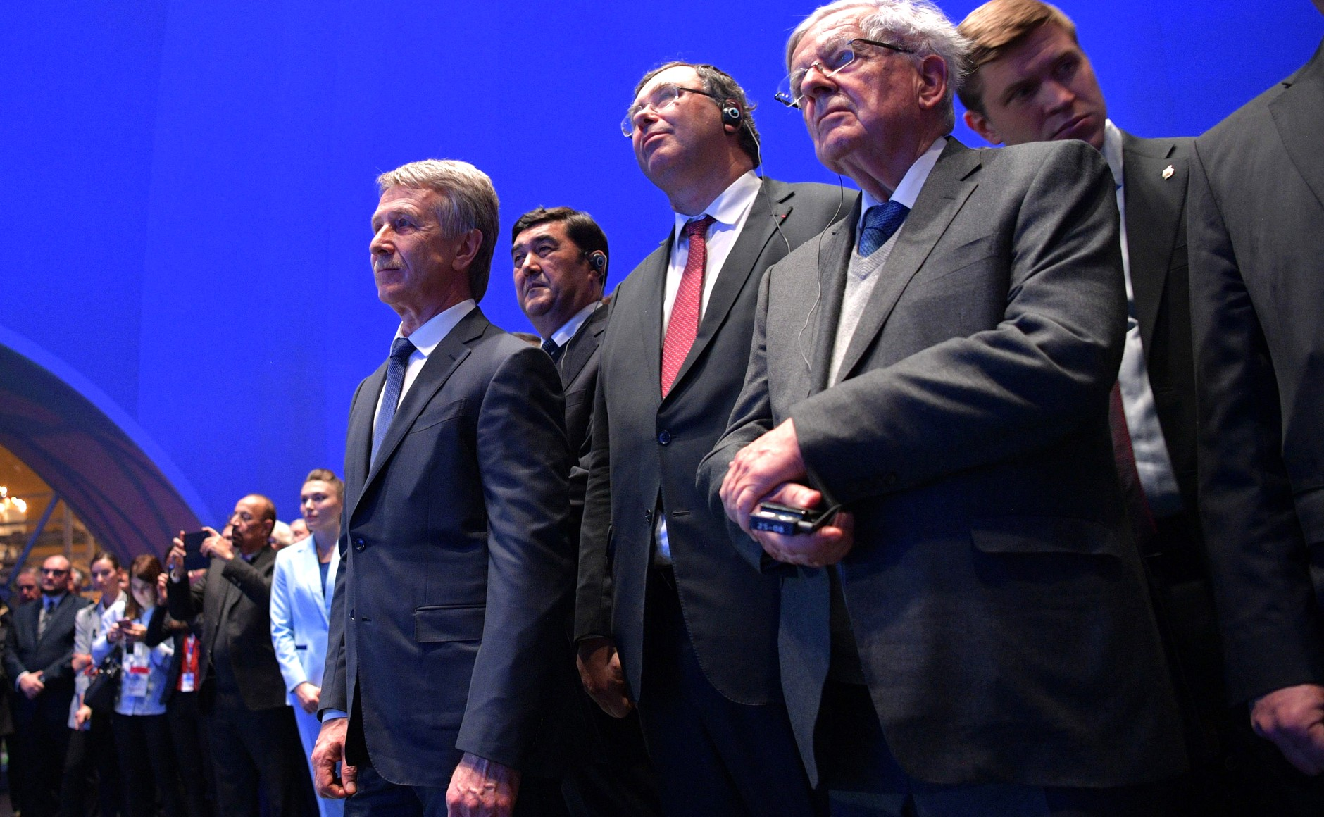 Ceremony of loading of the first LNG tanker within the project of Yamal LNG